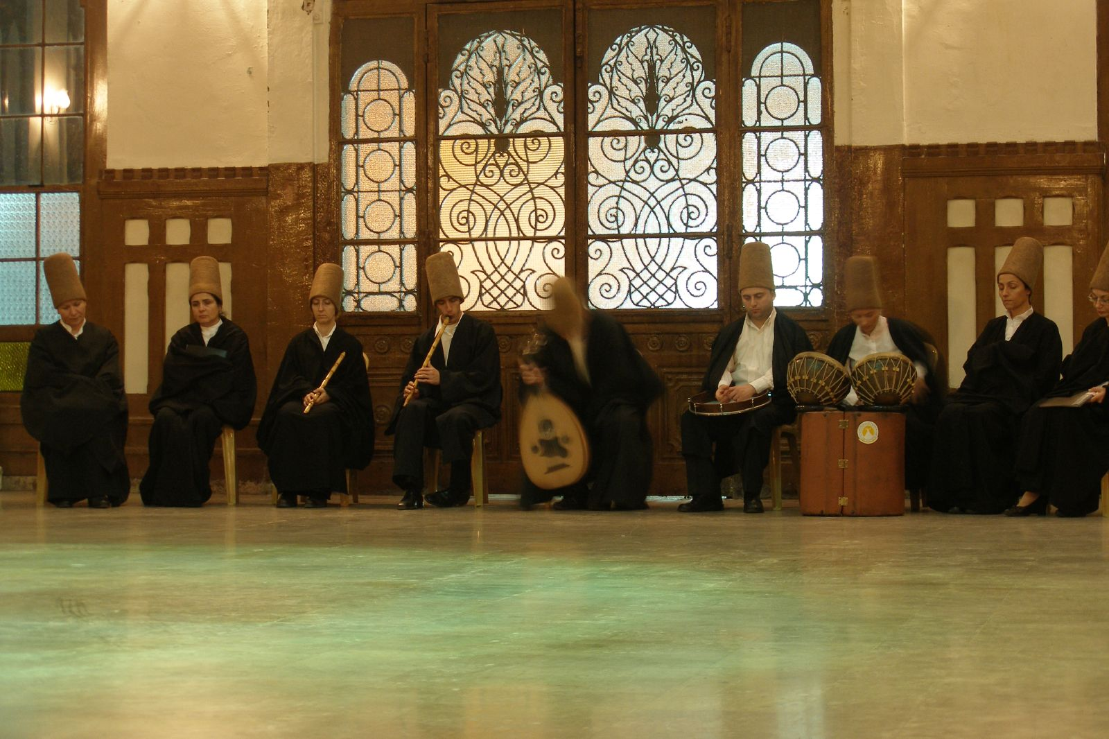 The Mevlevi Order or the Mevleviye are a Sufi order founded by the followers of Jalal ad-Din Muhammad Rumi in 1273 in Konya, (in Turkey at present). They are also known as the Whirling Dervishes due to their famous practice of whirling as a form of dhikr (remembrance of Allah). Dervish is a common term for an initiate of the Sufi Path.